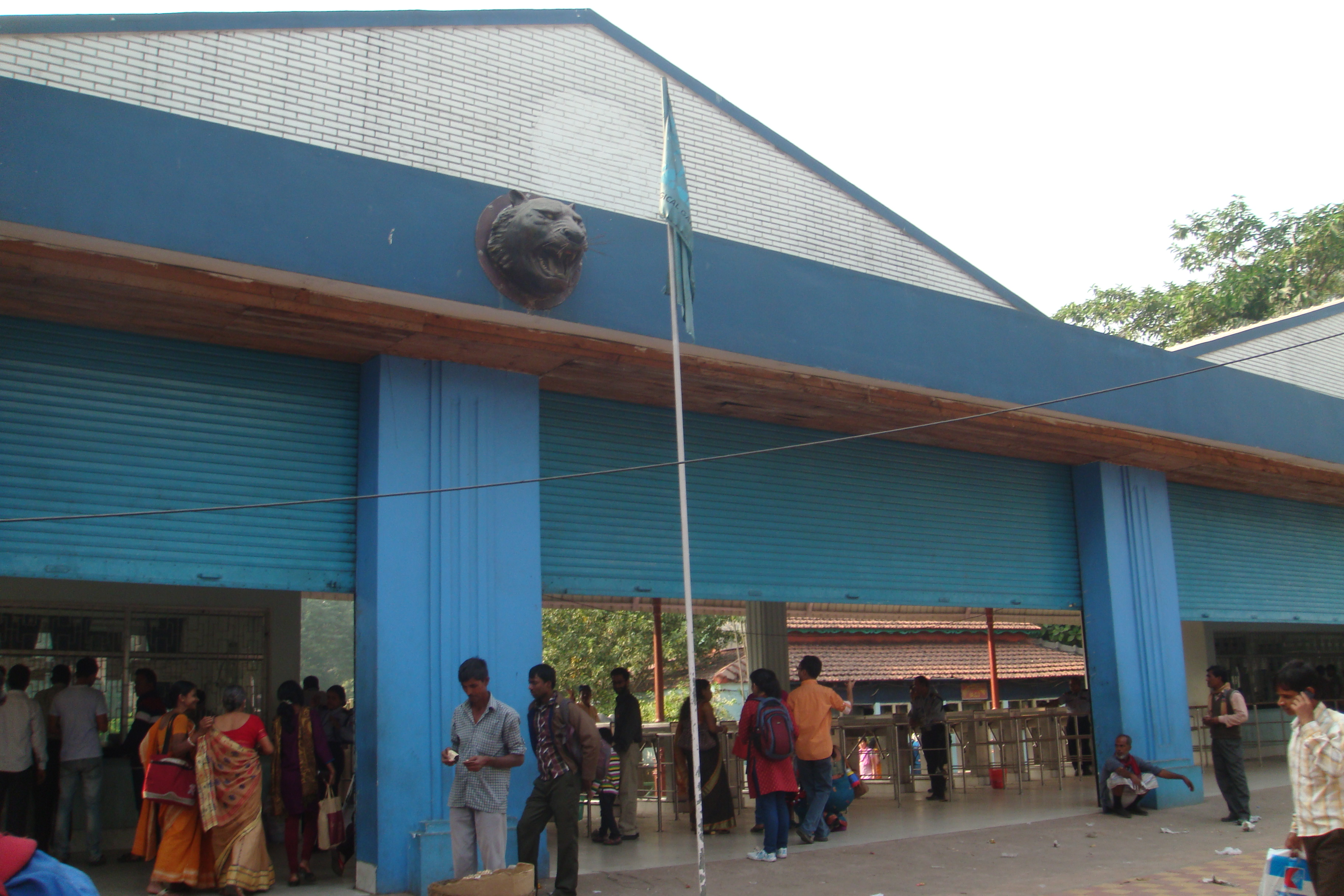 This image is one of the photos I took while on a visit to the Alipore Zoological Gardens during November 2013. It has been taken with a Sony Cyber Shot model DSC-T300.